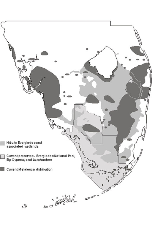 Invasive plant species - Melaleuca quinquenervia - distribution in Florida. ote stand concentrations along east and west coast of central and south Florida and scattered in between.